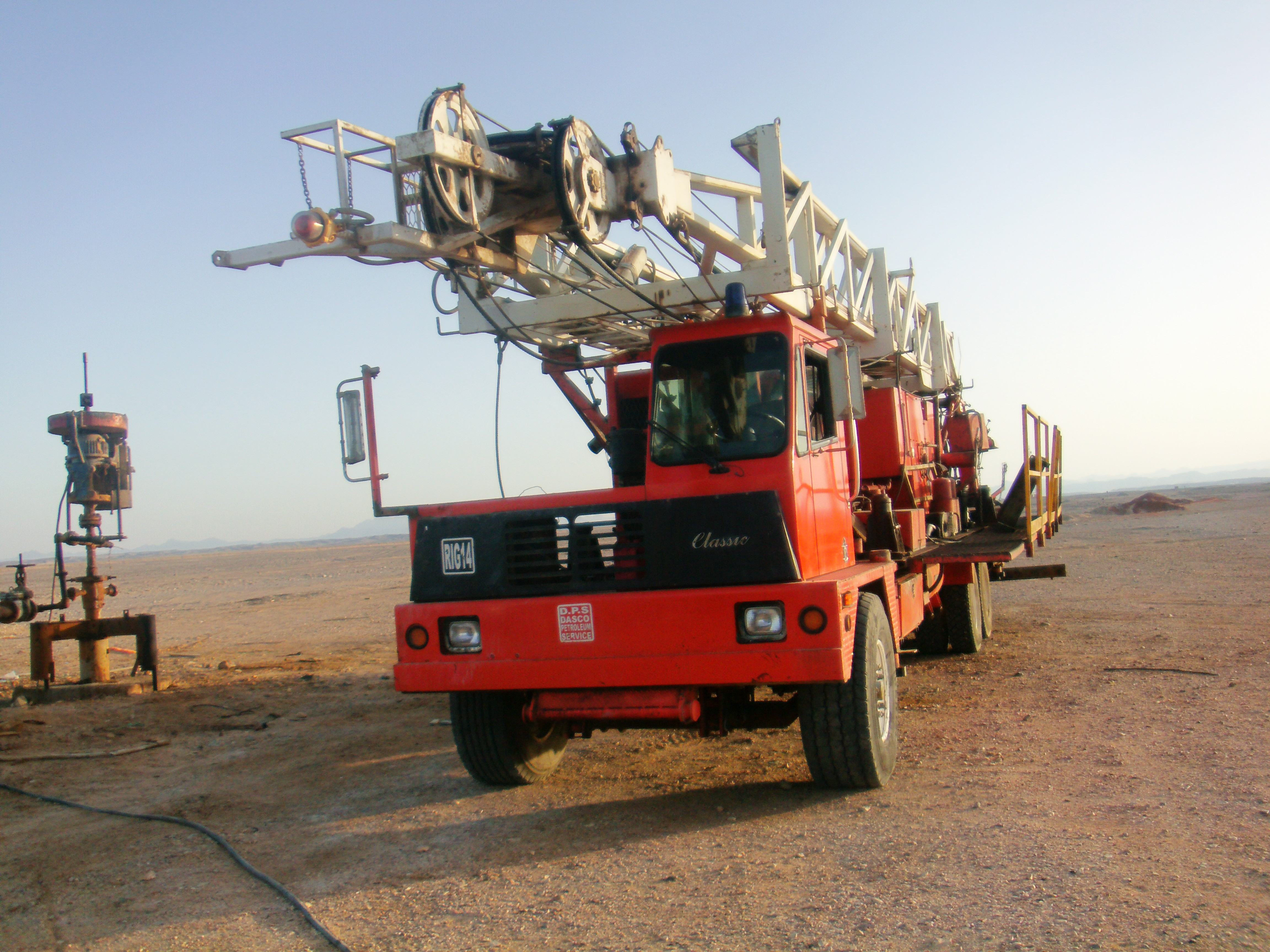 A work Over Rig for well maintenance, Egypt